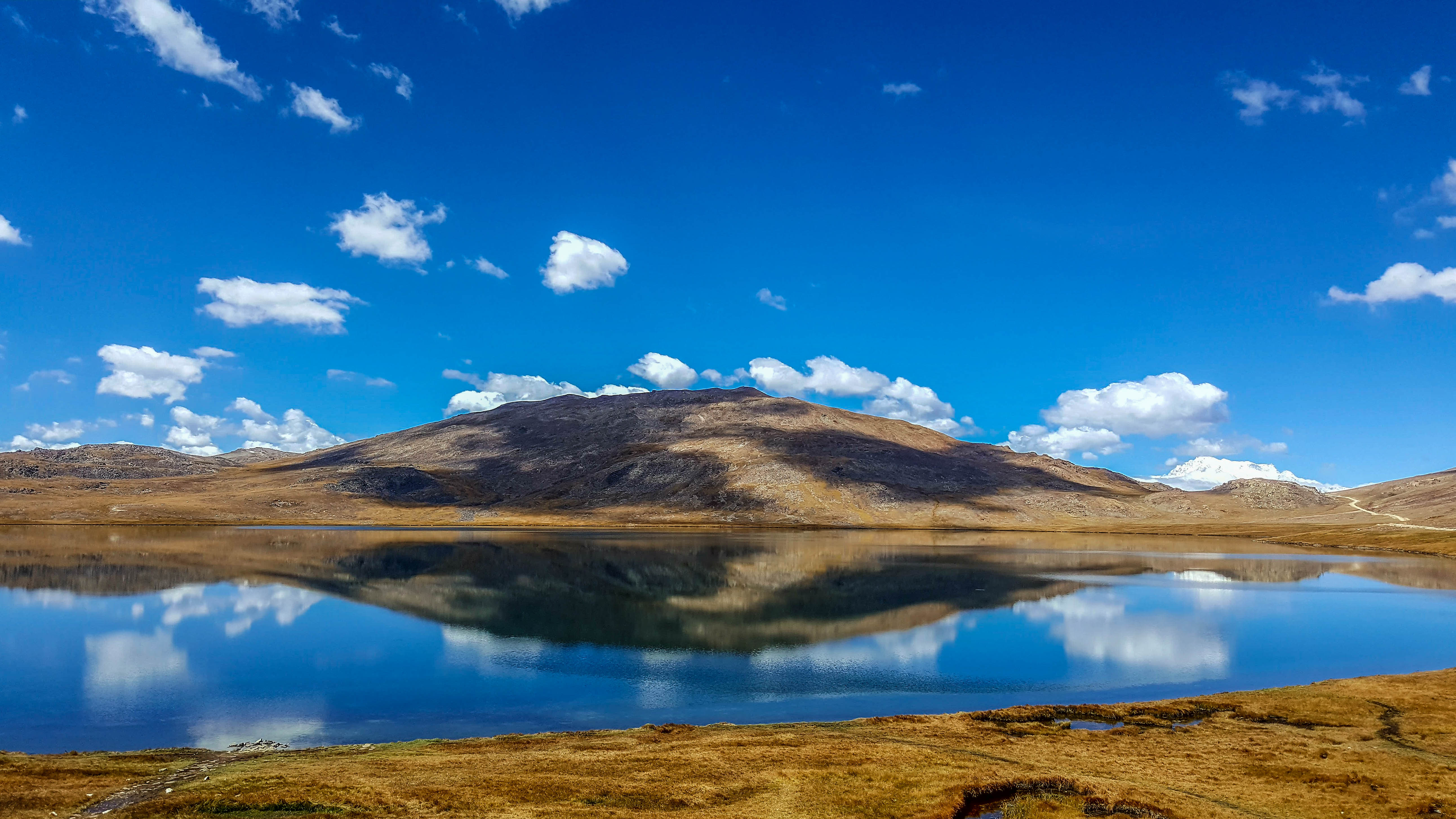 Sheoser lake deosai national park